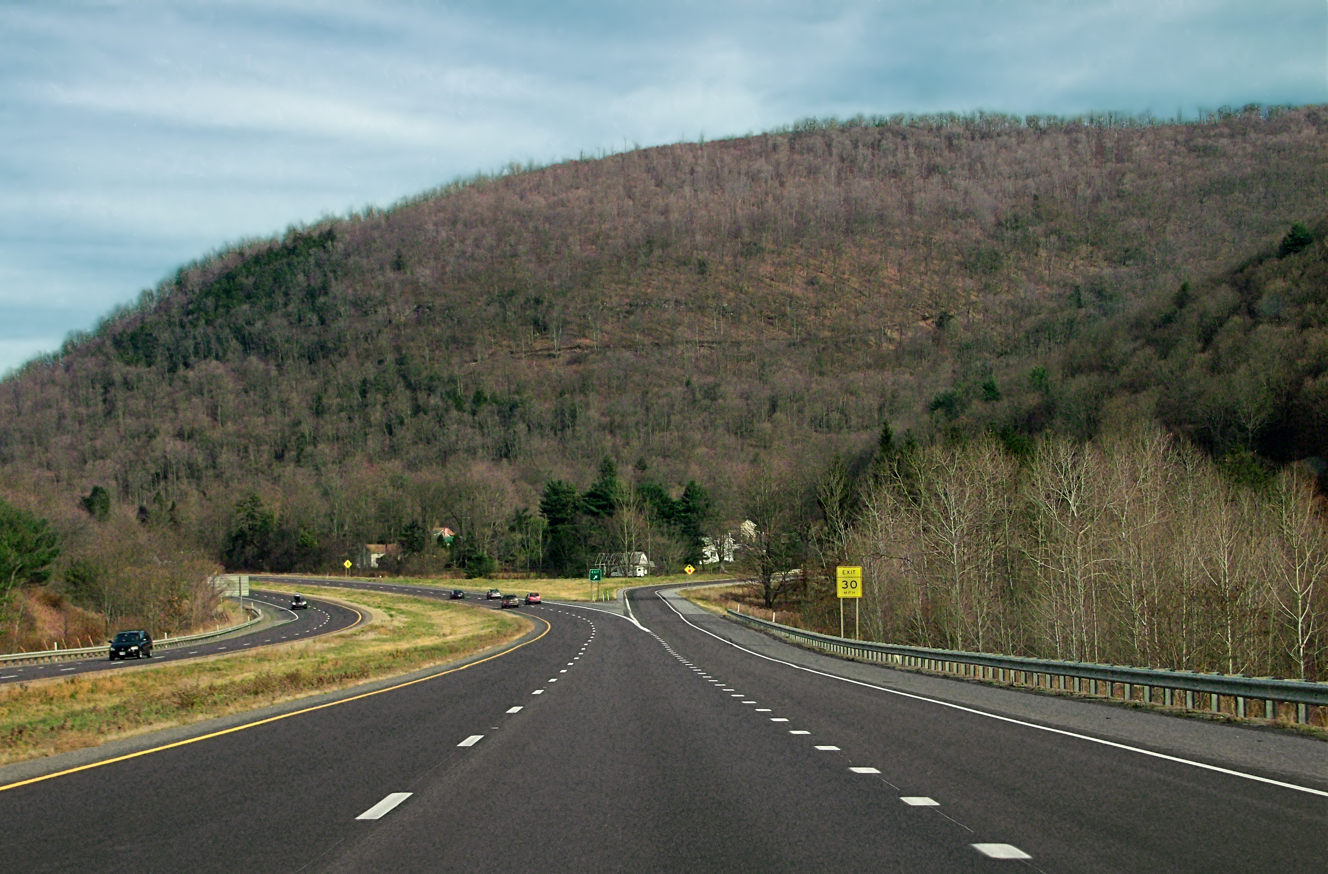 US Route 15, Lycoming County.